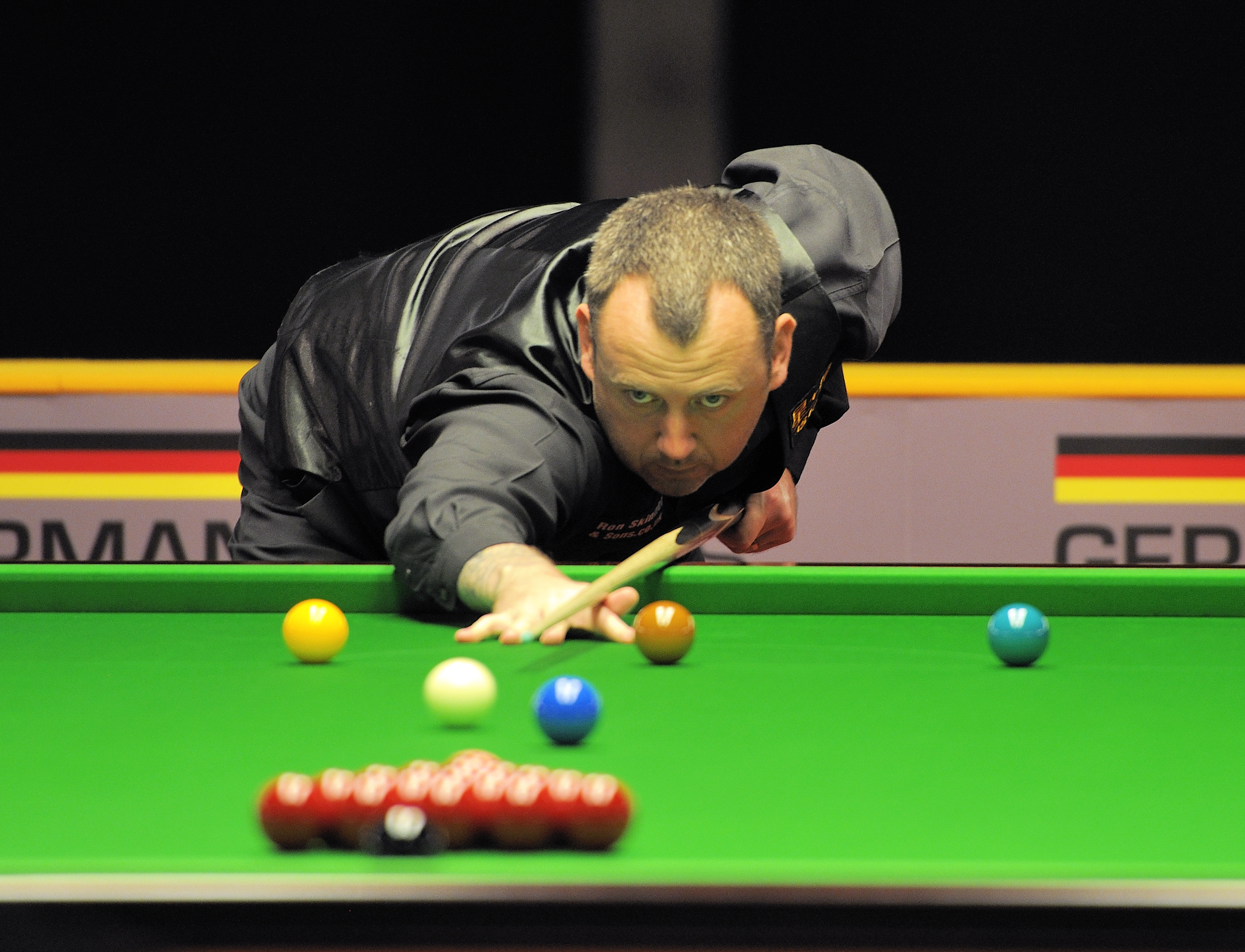 Picture taken in Berlin during the Snooker German Masters in 2014. Mark Williams.